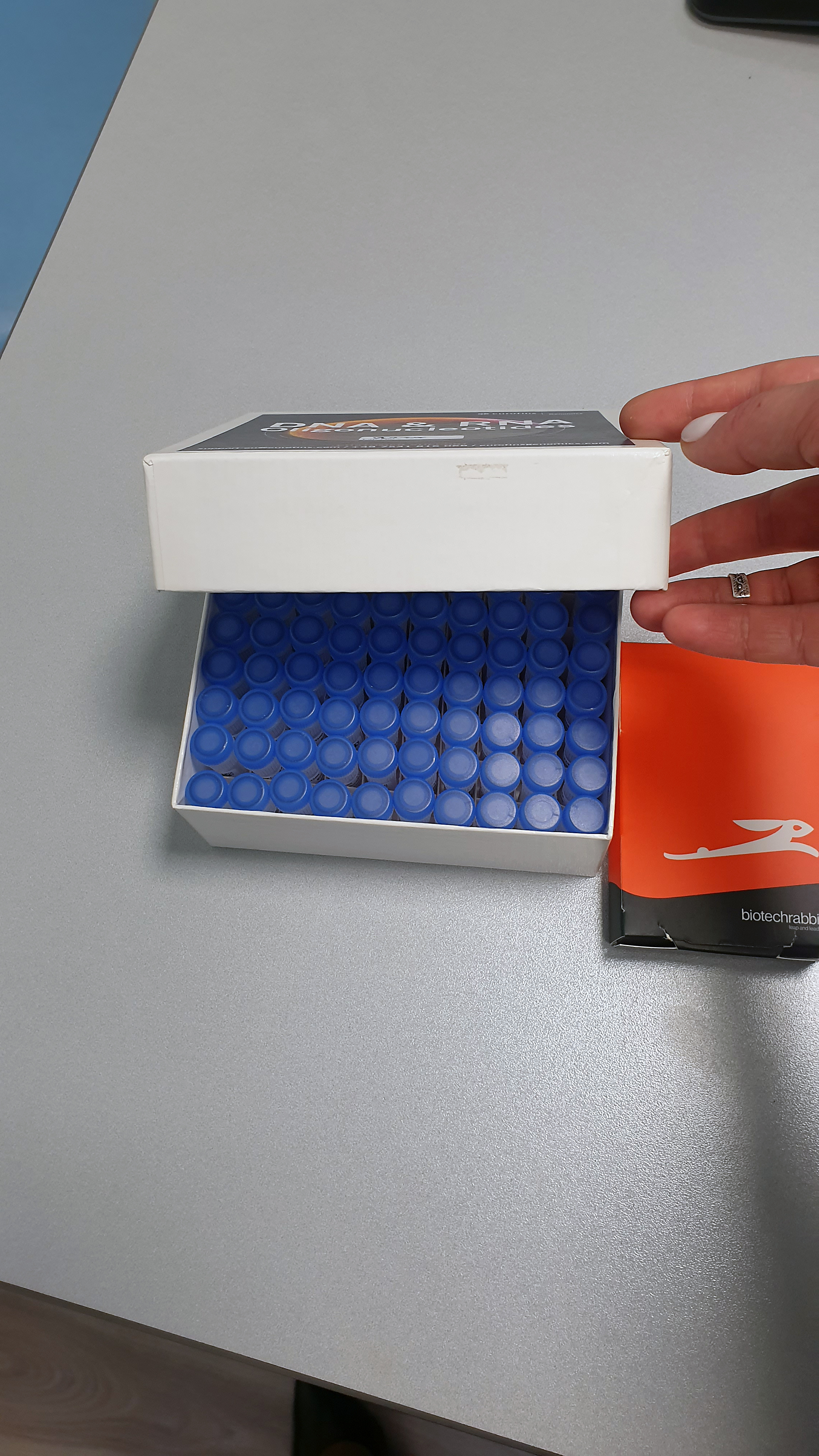 Assistance to Armenia for diagnostics of COVID-19 COVID-19 equipments donated by the IAEA to Armenia. 21 May 2020. The International Atomic Energy Agency (IAEA) is dispatching equipment to countries around the world to enable them to use a nuclear-derived technique to rapidly detect the coronavirus that causes COVID-19. This emergency assistance is part of the IAEA's response to requests for support from Member States in controlling an increasing number of infections worldwide. Photo Credit: IAEA